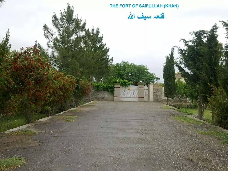 Great saifullah khan